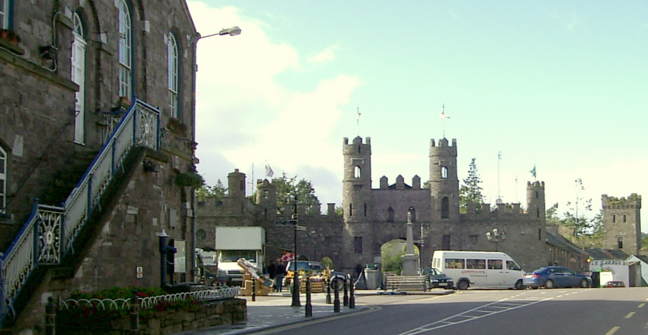 Macroom castle, County Cork, Ireland